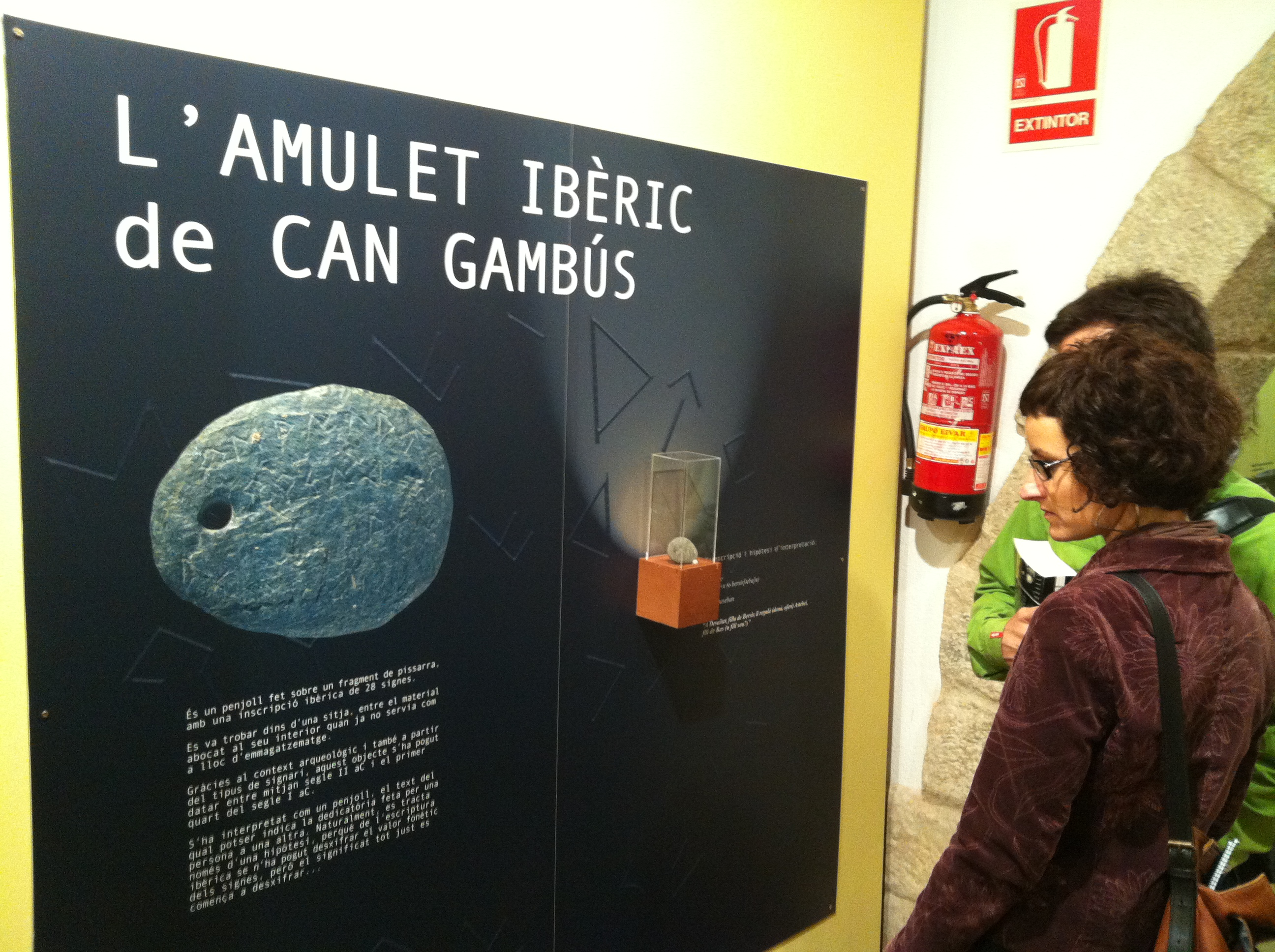 Museu d'Història de Sabadell